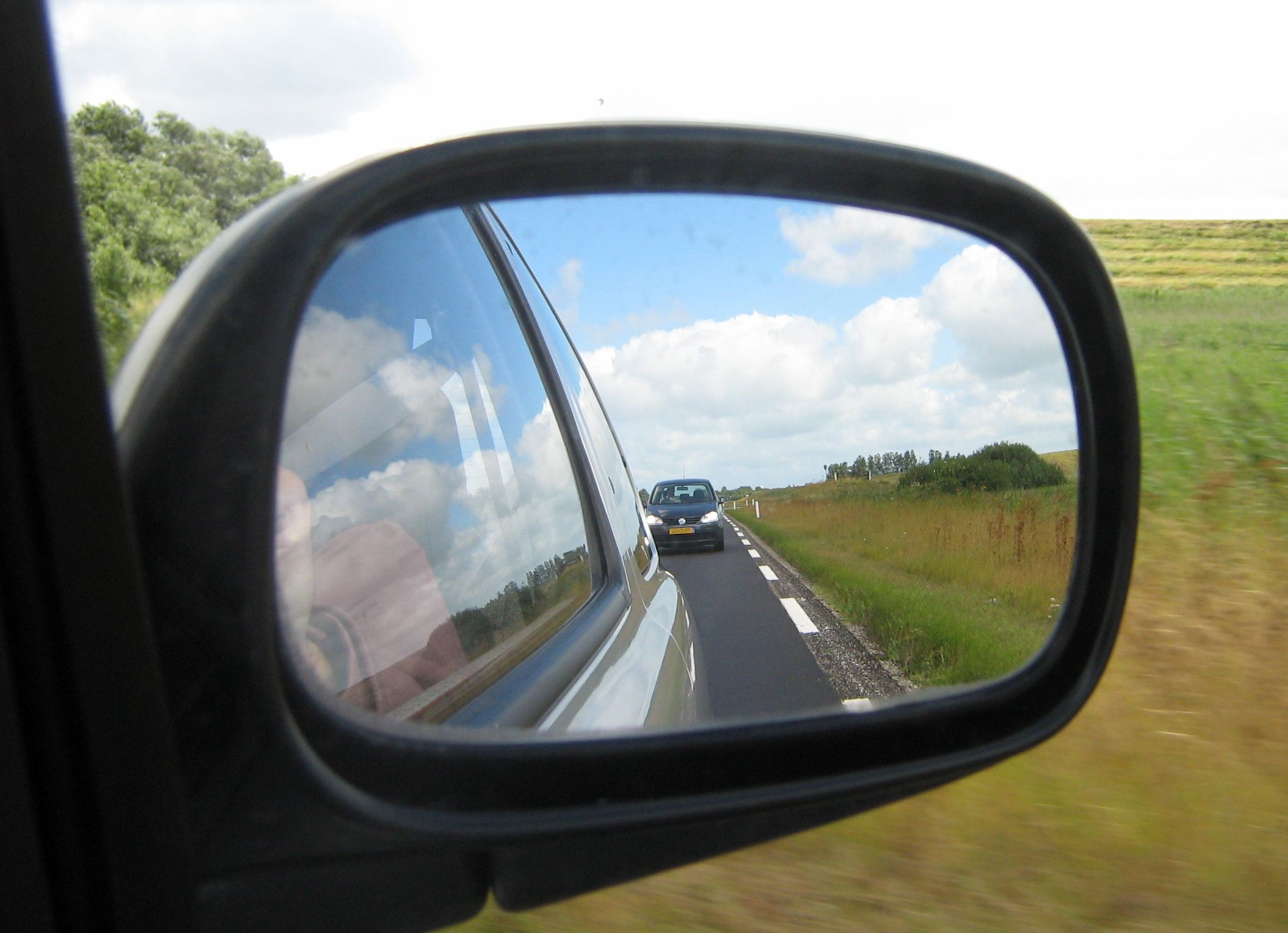 Side mirror of a car.